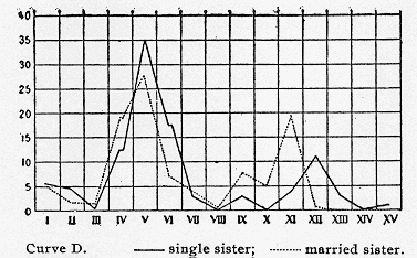 "Two sisters living together. The dotted line represents the married sister."